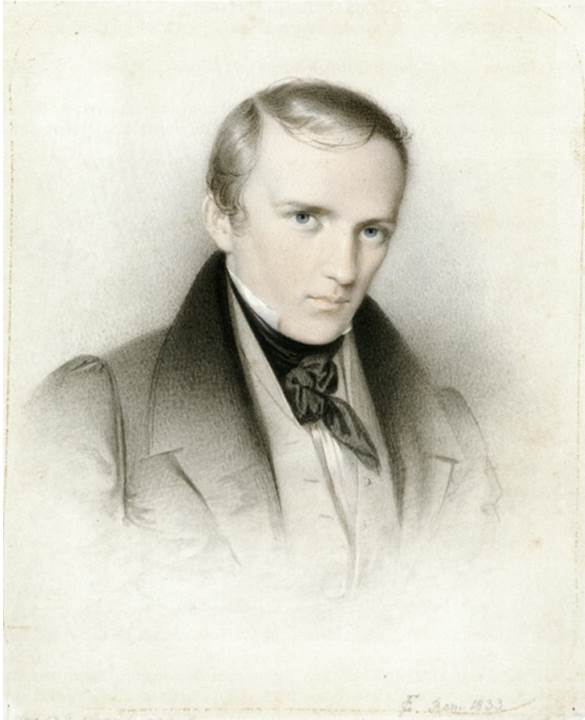 German painter Gebhard Flatz (1833)